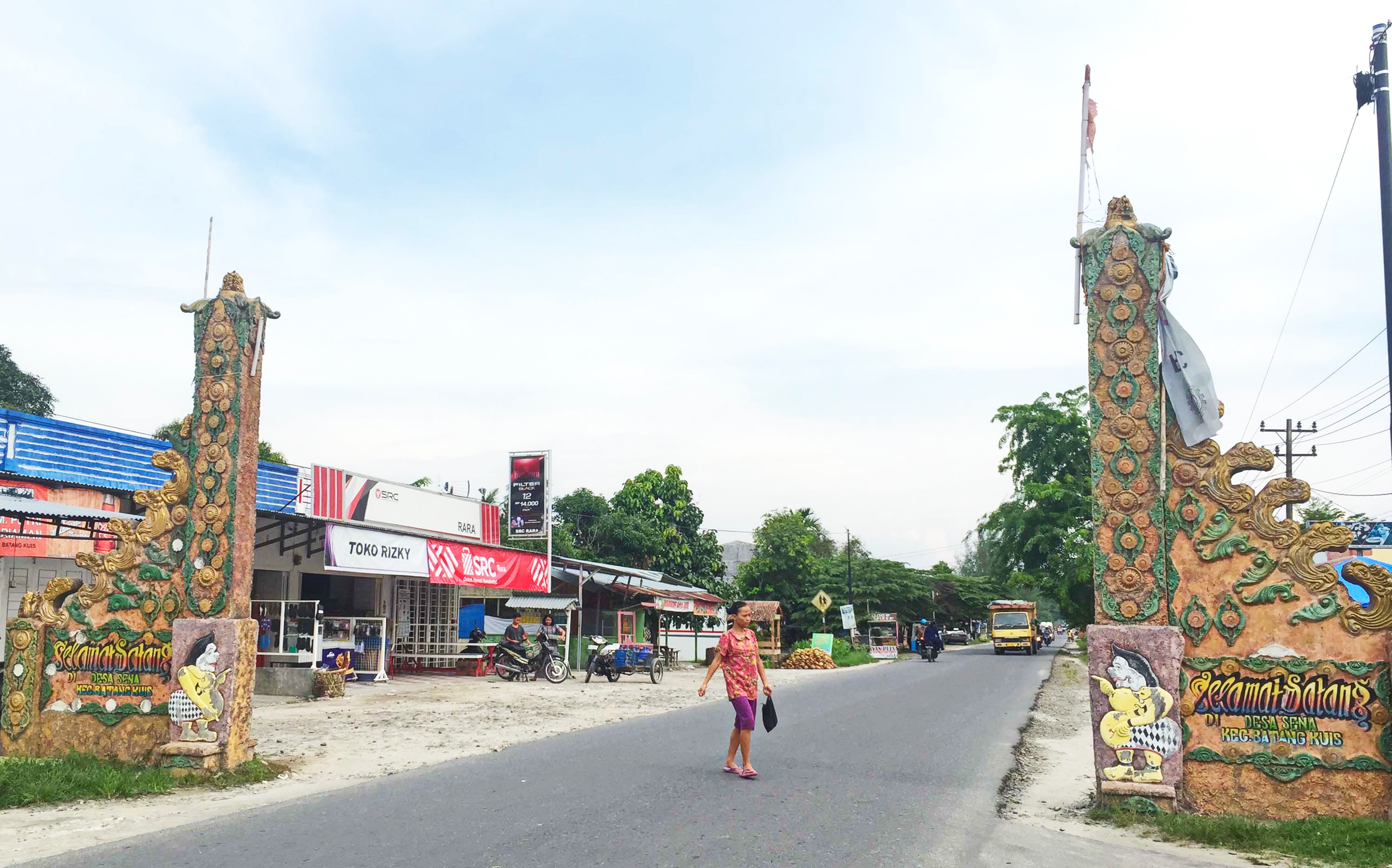 Welcome gate to Sena, Batang Kuis, Deli Serdang